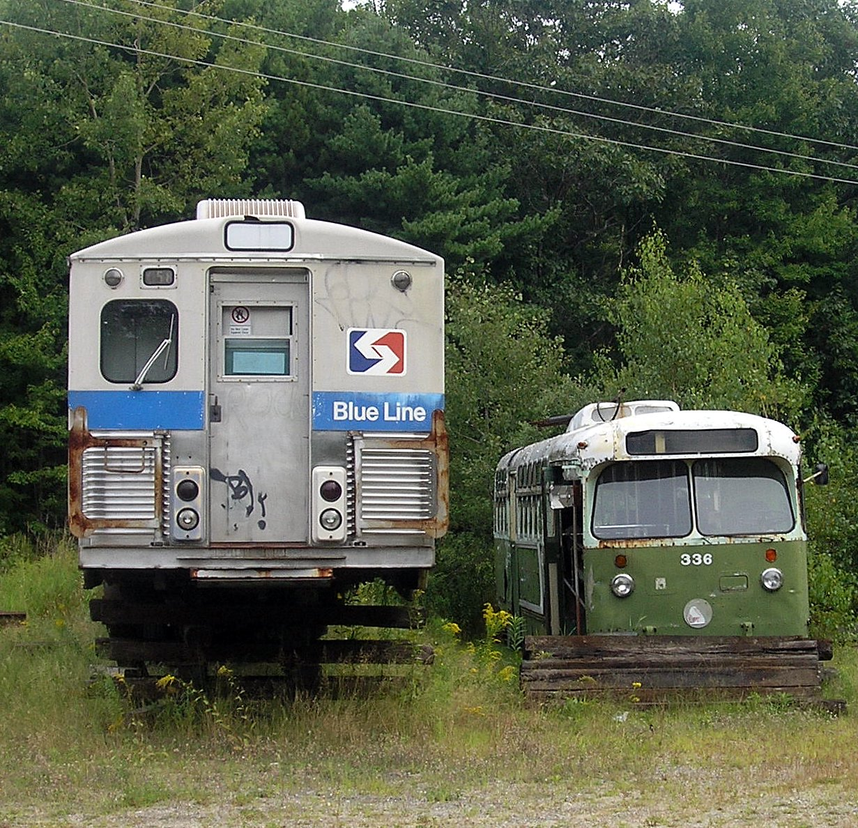 Two ex-Philadelphia vehicles at the Seashore Trolley Museum - a Budd M-3 used on the SEPTA Market-Frankford Line, and a Marmon-Herrington trolleybus used by the Philadelphia Transportation Company